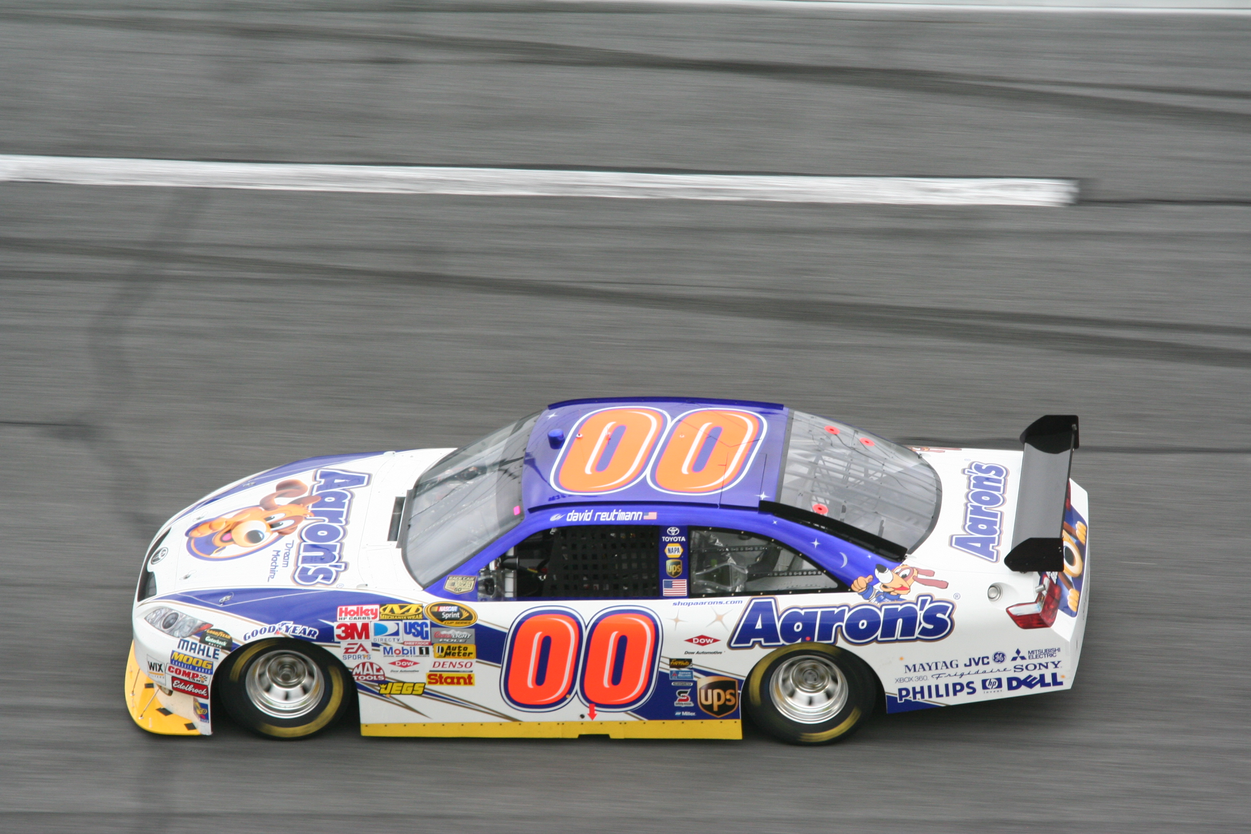 Shot by The Daredevil at Daytona during Speedweeks 2008David Reutimann Aaron's Toyota Camry